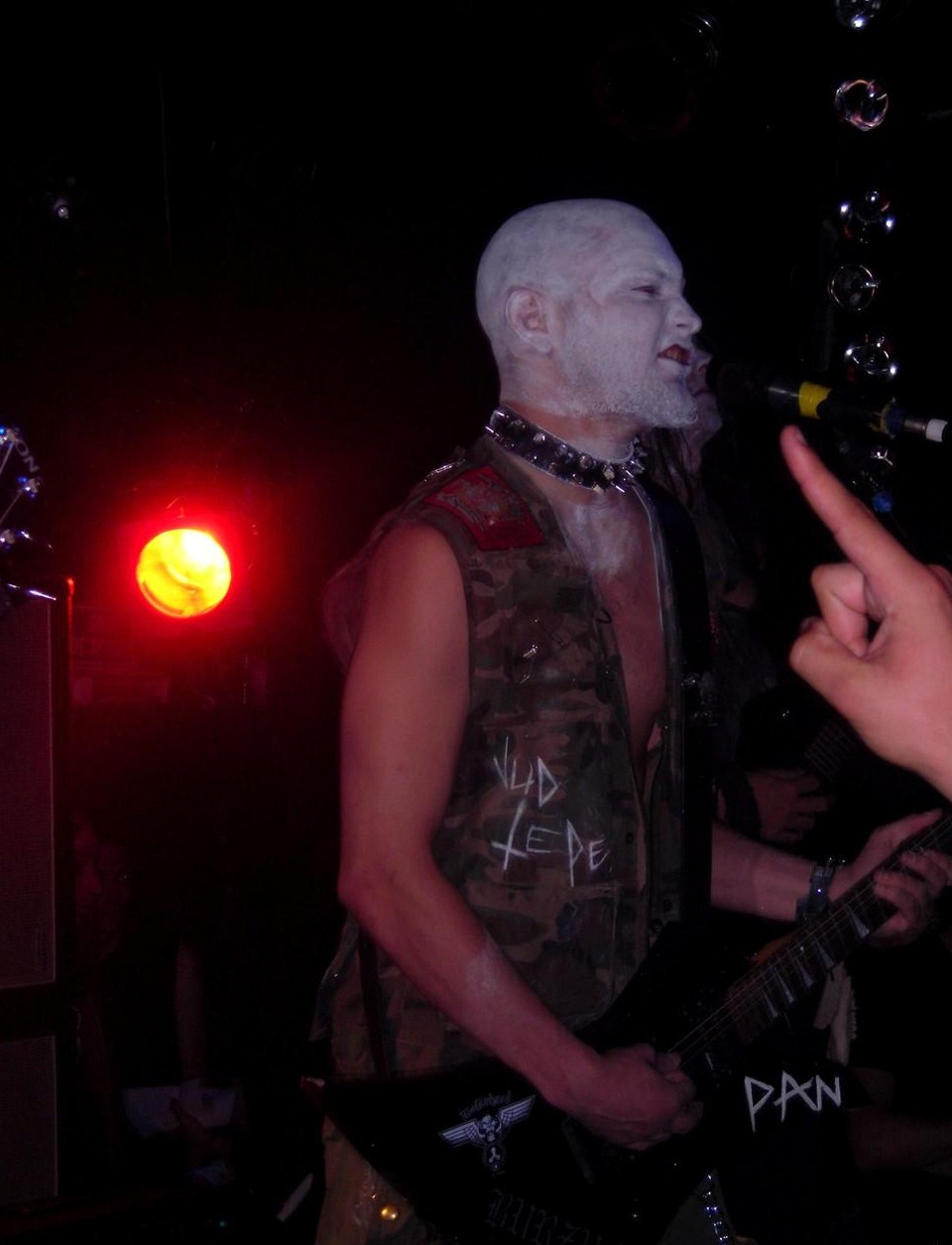 PN's concert in Lyon's Hall in 2007